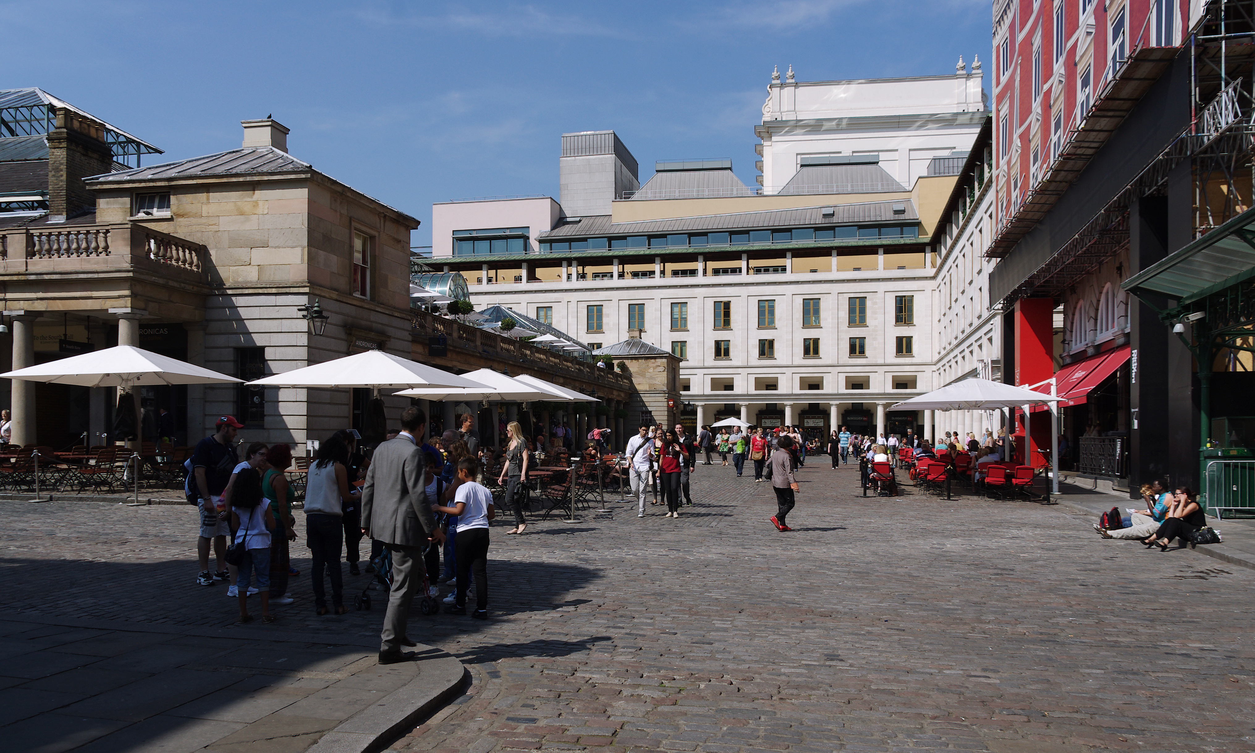 An outdoor café in Covent Garden Market.